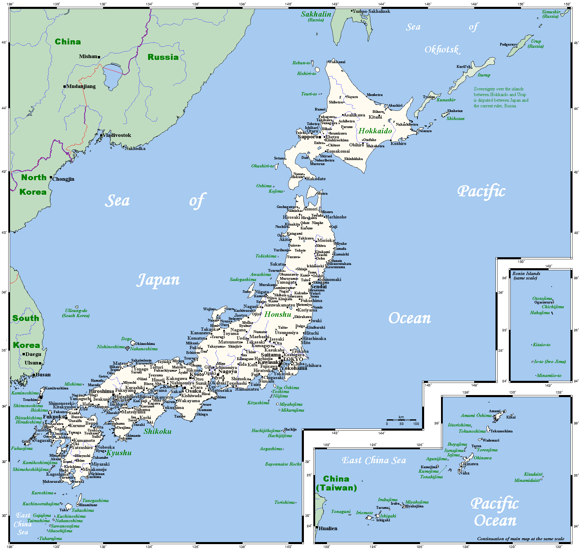 A map showing Japan's cities, main towns and selected other places.